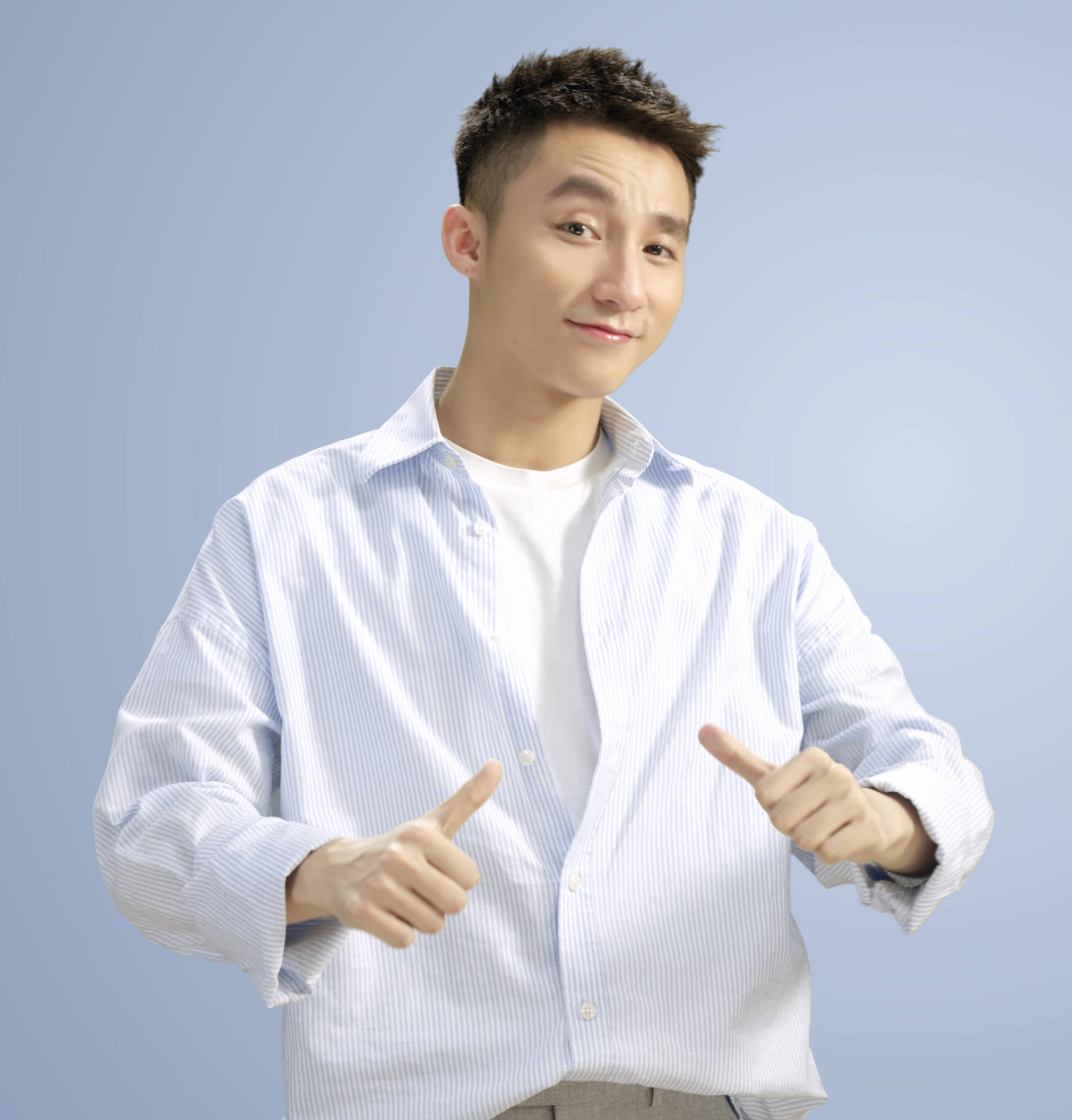 Vietnamese singer Sơn Tùng M-TP in a promotional video for Viettel.